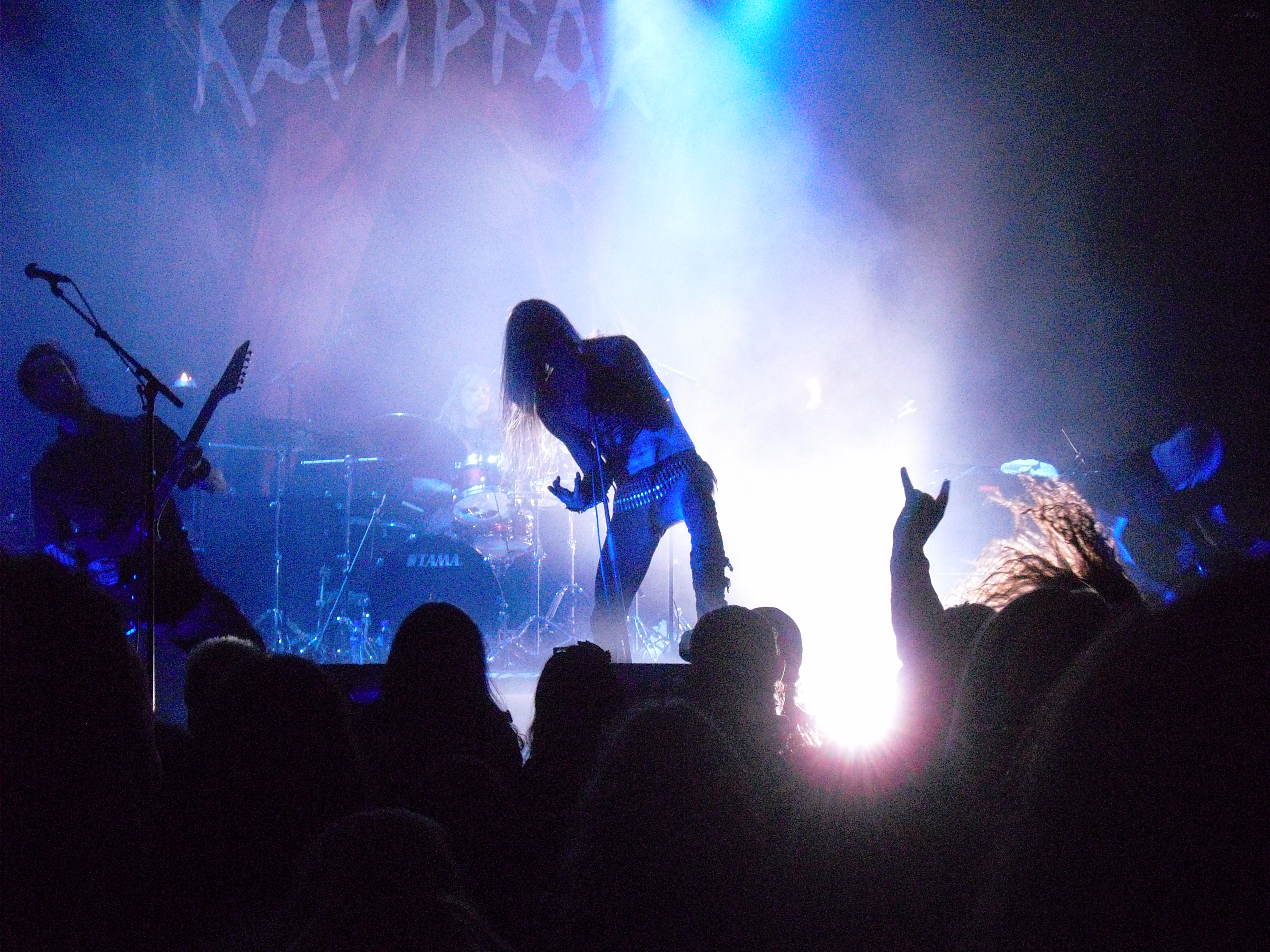 Kampfar performing live in Oslo in June 2012